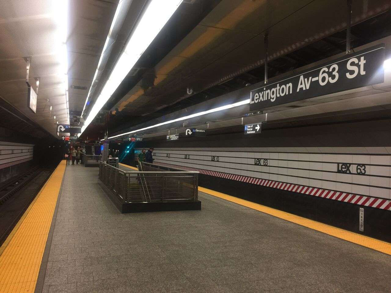 Upper level platform at Lexington Avenue-63rd Street in May 2017